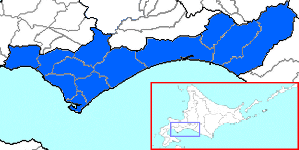 The map of Iburi Subprefecture in Hokkaido Prefecture, Japan.